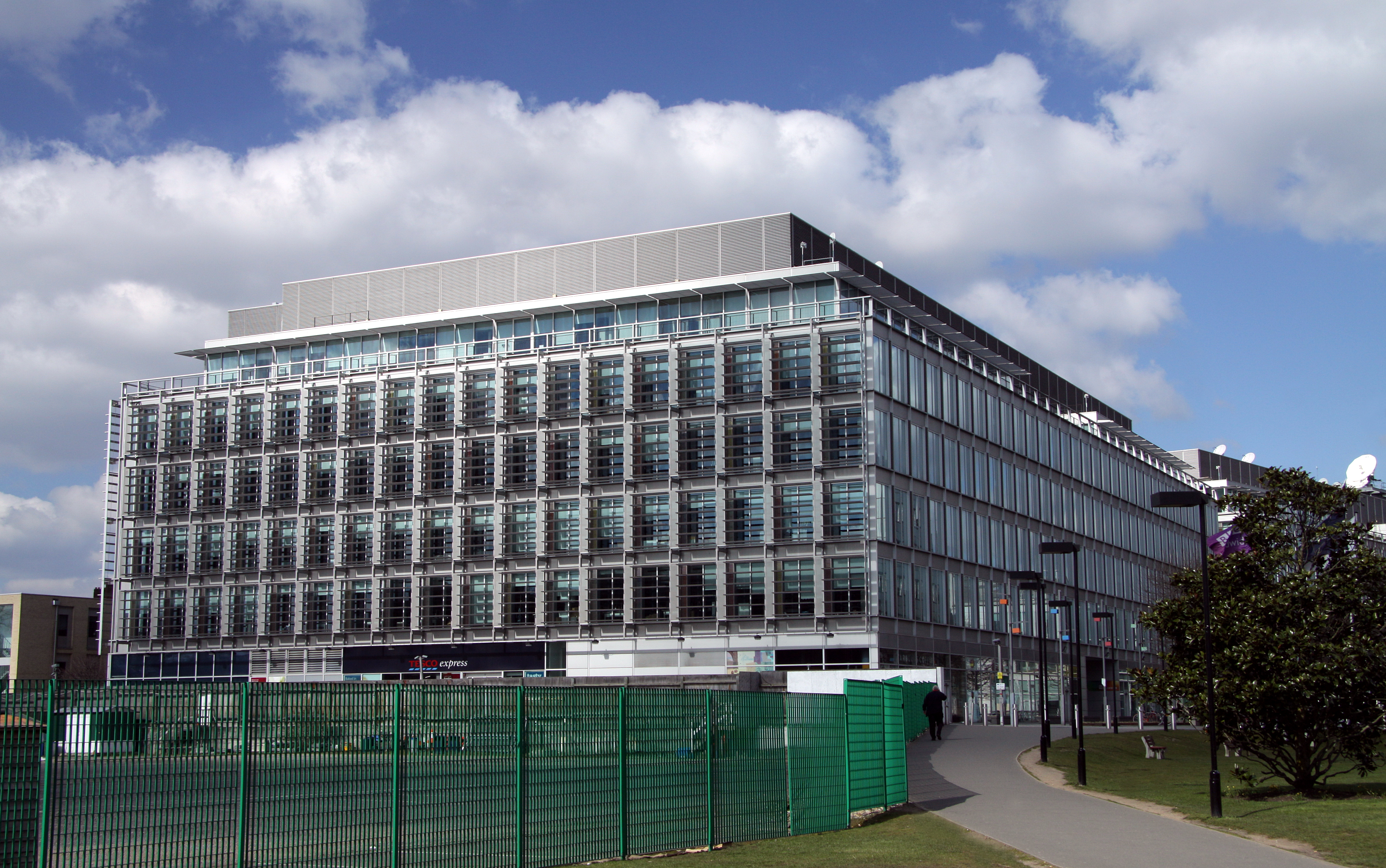 Buidling of BBC White City in London, England, Great Britain - Google Maps - Google Earth